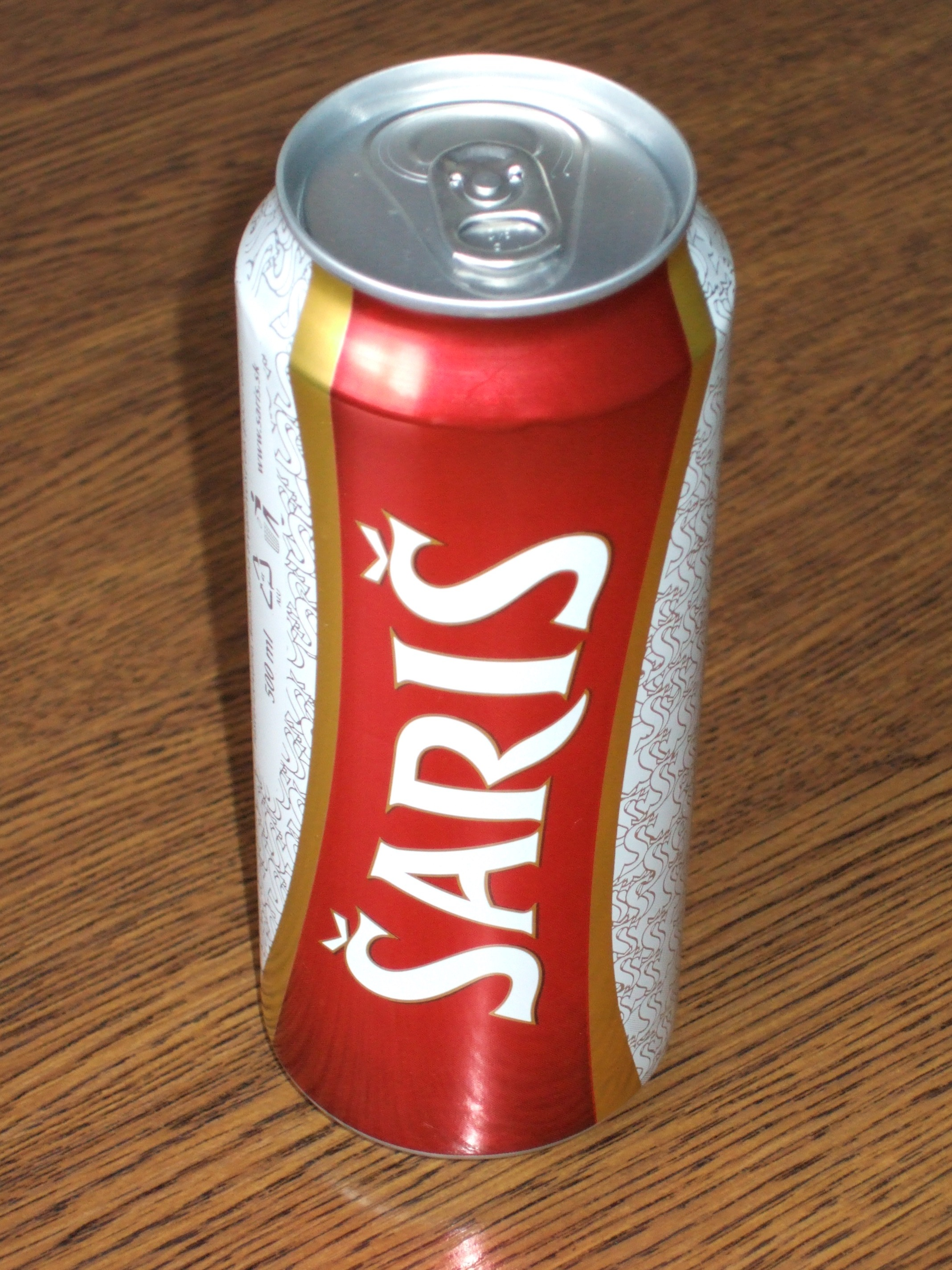 Canned beer of Šariš, Slovakia